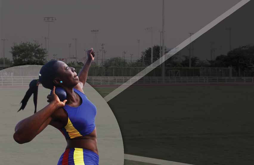 shot put